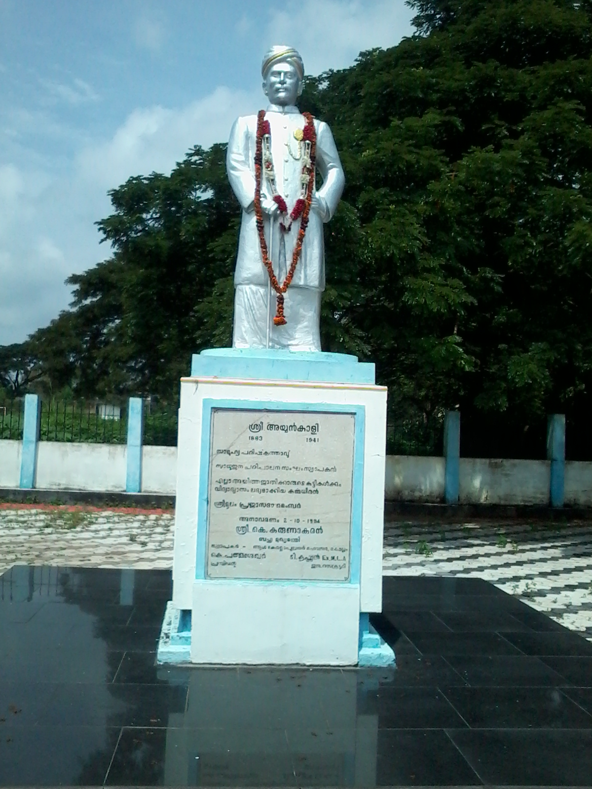 The Statue of Ayyankali, a social reformer in Kerala, is situated at Peeranki Maidanam near SN College, Kollam. The statue was unveiled by K. Karunakaran, the then chief minister of Kerala on 2nd October 1994. The black colour of the Statue was replaced by white colour in 2015.